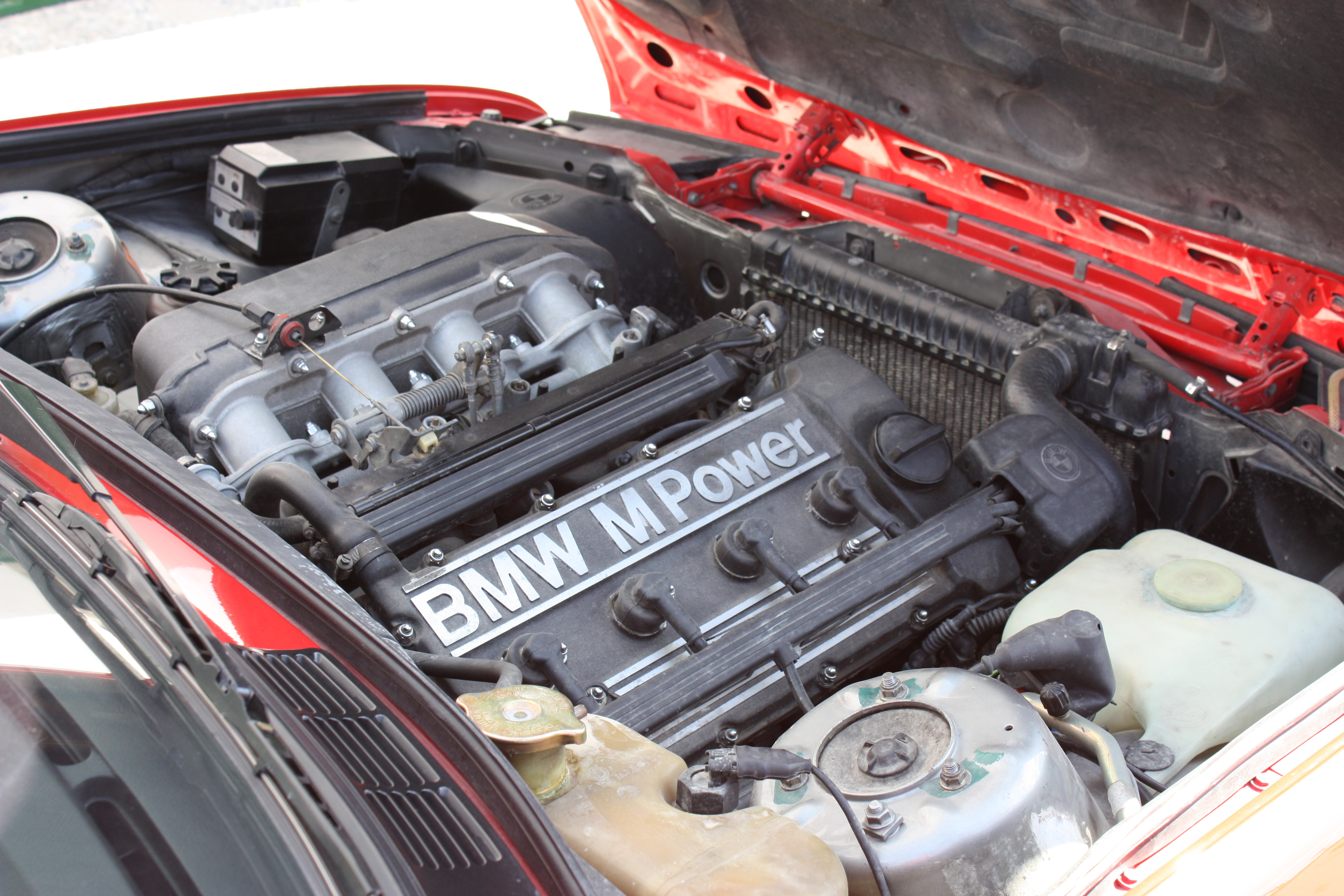 S14B20 of a BMW E30 320is